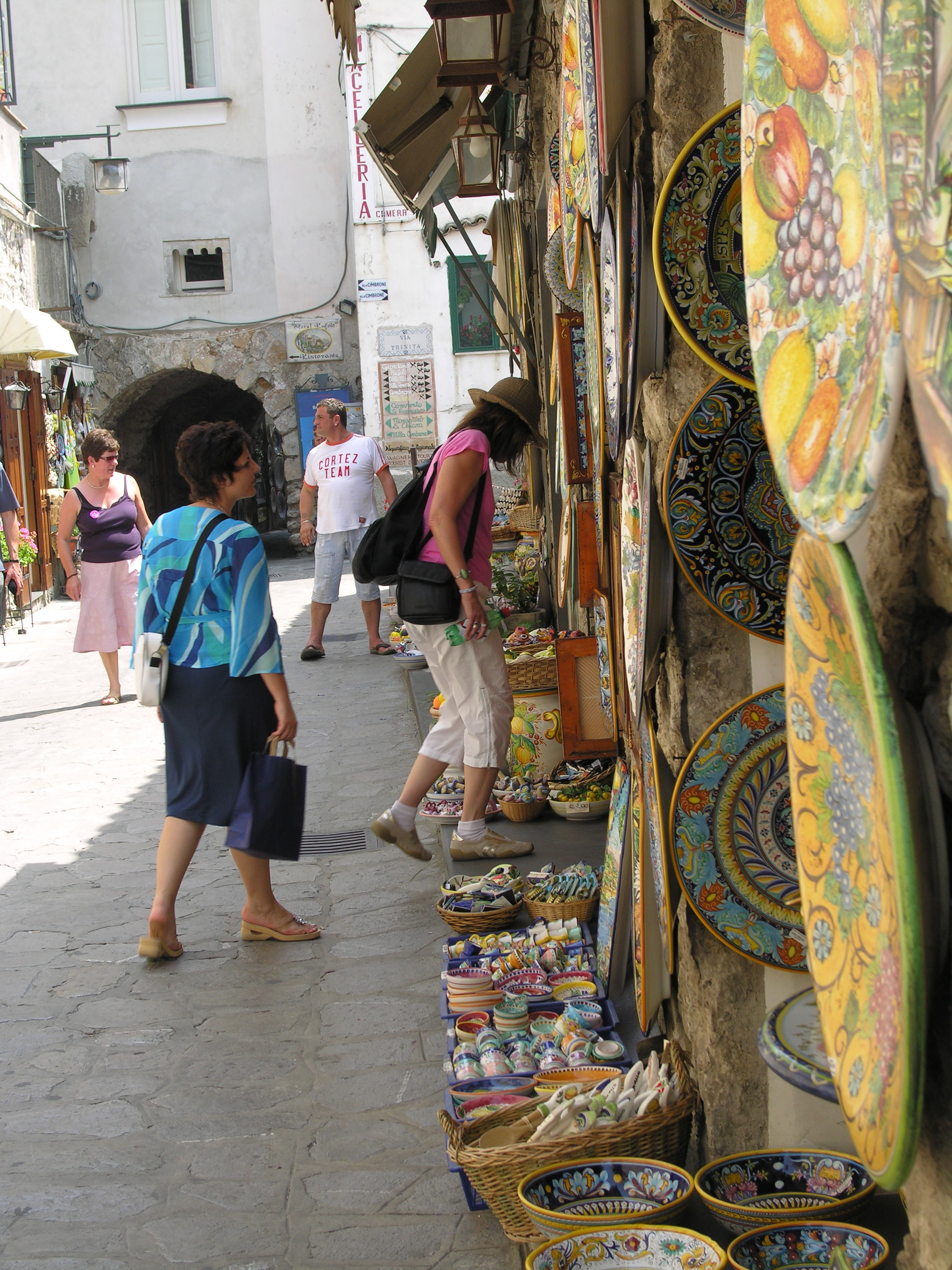 Center of the town of Ravello, Italy, june 2006